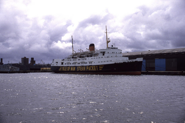 East Float, Wallasey Docks + historic turbine steamer Ben-my-Chree